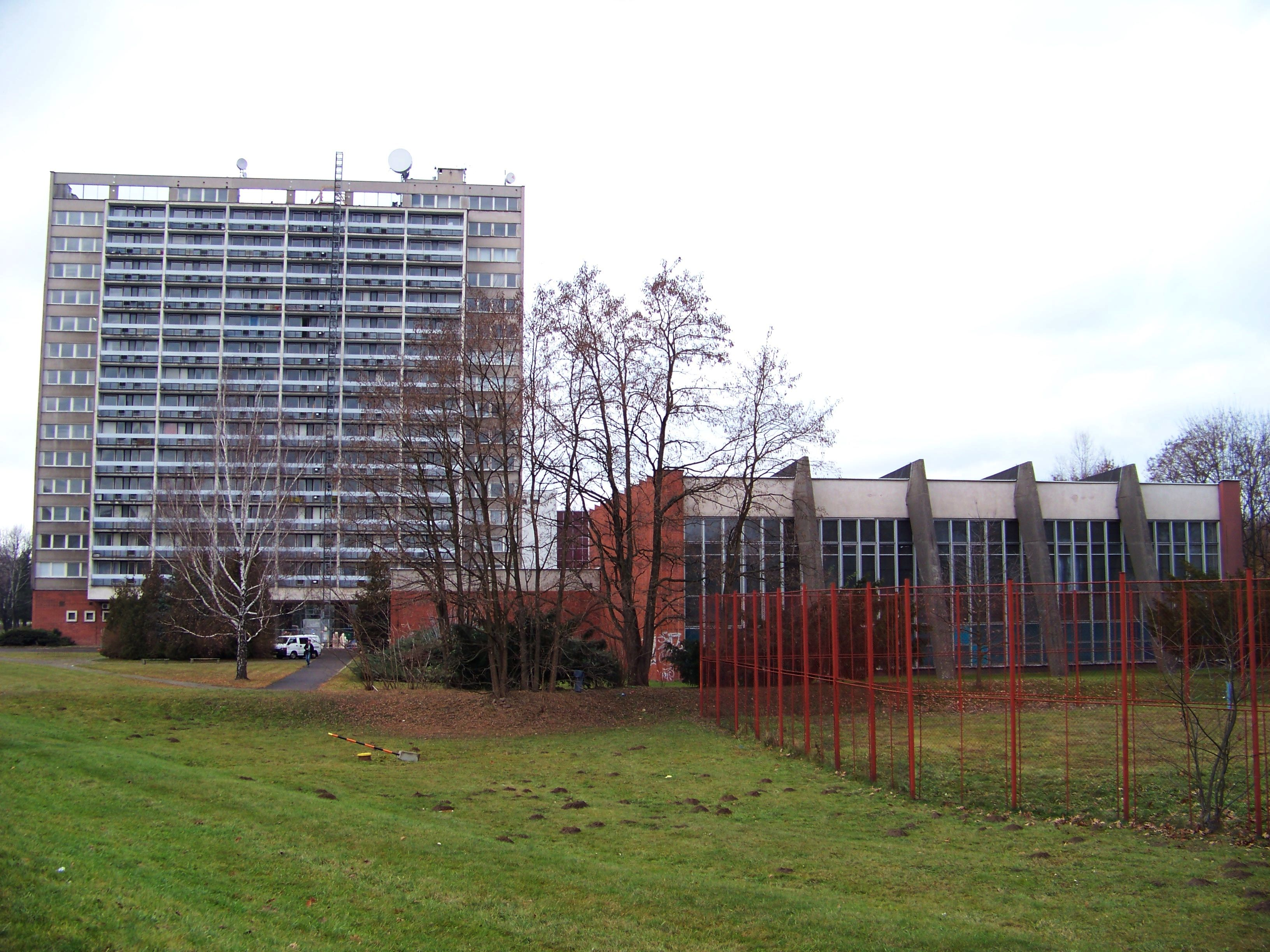 Hradec Králové, Hradec Králové District, Hradec Králové Region, the Czech Republic. Sokolská street, Military Medical Academy of J. E. Purkyně. - OpenStreetMap(Info)